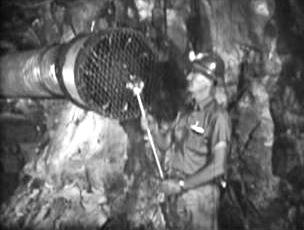 A uranium mine worker measures the airflow in front of a ventilation duct that provides the necessary protection from the accumulation of radon - a radioactive gas present in some rock formations.